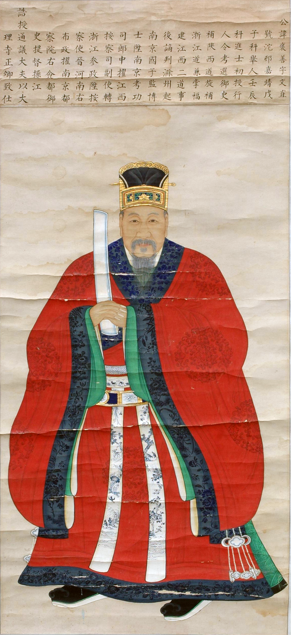 Shi Baoshan, official of the Ming Dynasty.